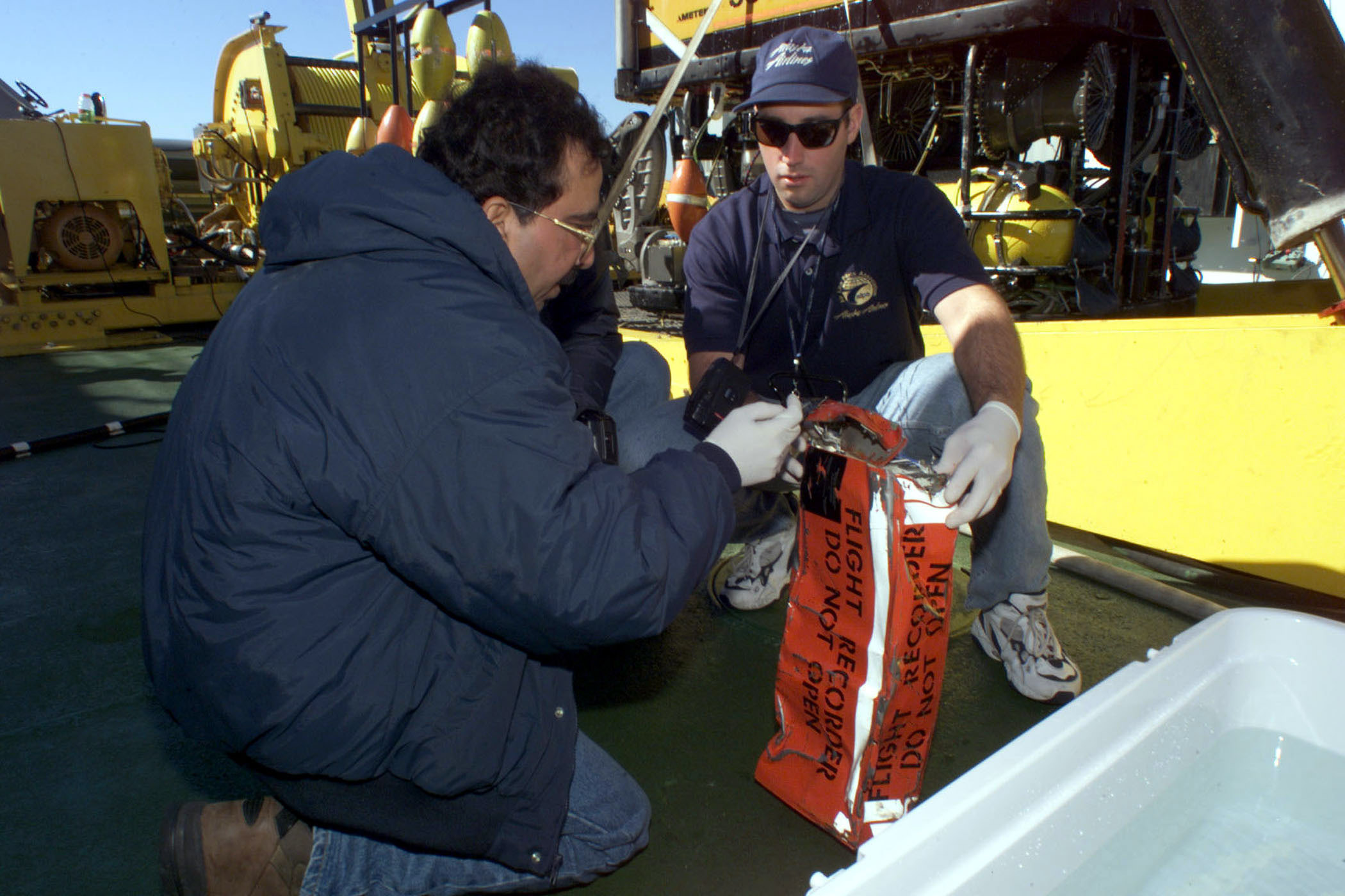 Deepak Joshi (left) of the National Transportation Safety Board and John Scarola of Alaska Airlines, prepare the flight data recorder from the downed Alaska Airlines Flight 261 for transport from the deck of the MV Kellie Chouest off the coast of Ventura County, Calif., on Feb. 3, 2000. The flight data recorder, more commonly called a black box, was located underwater and brought aboard the ship by SCORPIO, a tethered unmanned work vehicle from the Navy's Deep Submergence Unit Unmanned Vehicle Detachment. The MV Kellie Chouest is a Military Sealift Command Submarine Support Ship.